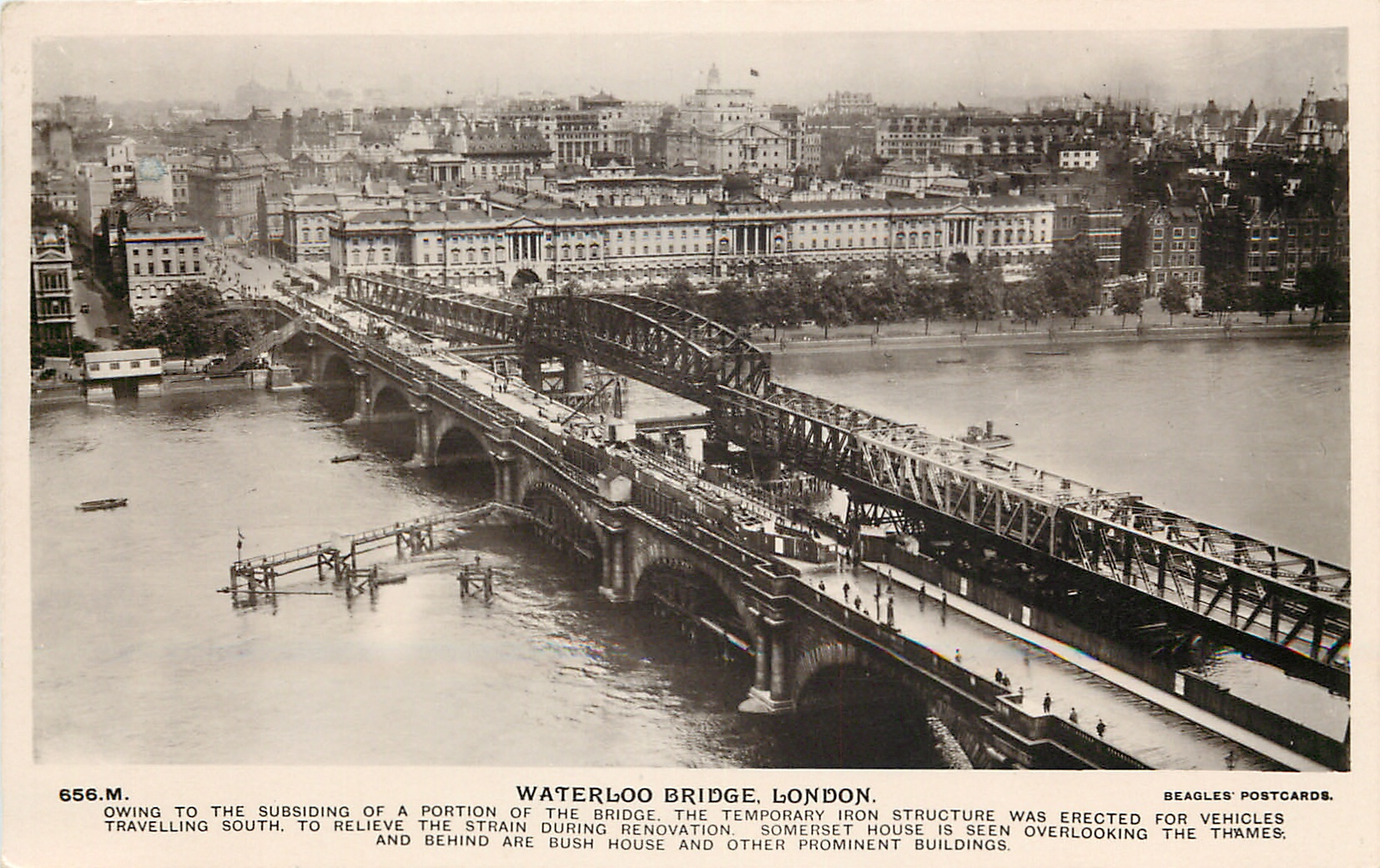 Waterloo Bridge, about 1925